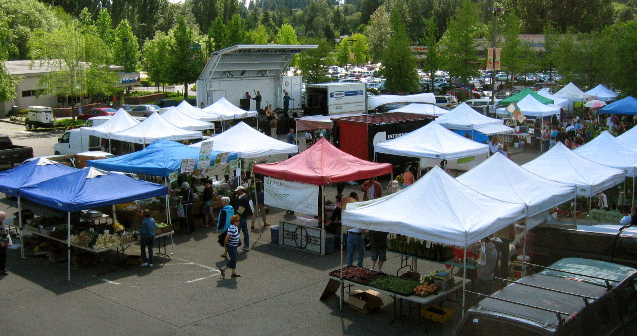 Lake Forest Park Farmer's Market, taken from City Hall